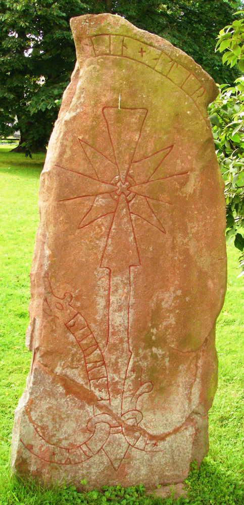 runic stone Upplands runinskrifter 943